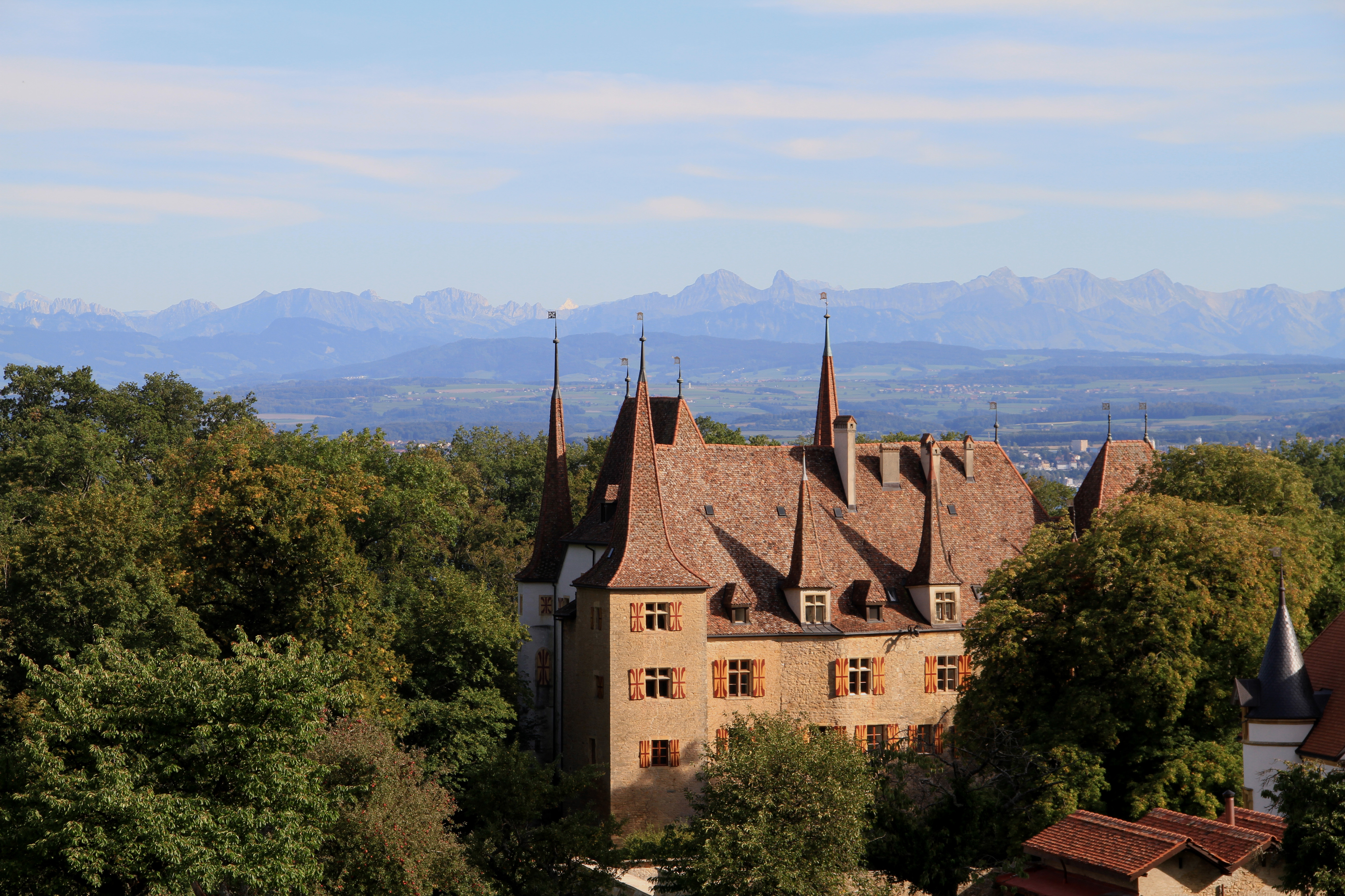 Château de Gorgier in front of the Alps